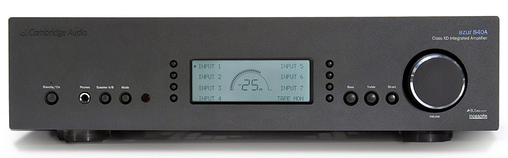 Cambridge Audio azur 840a class xd integrated amplifier